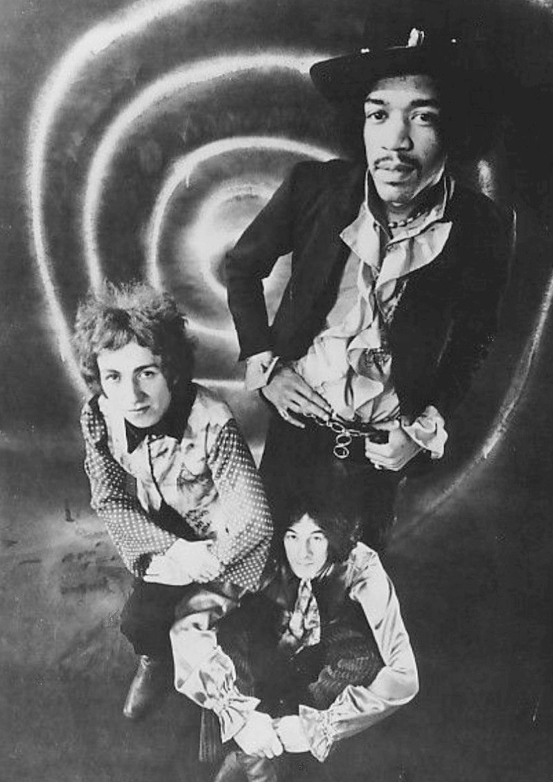 Photo of the Jimi Hendrix Experience.